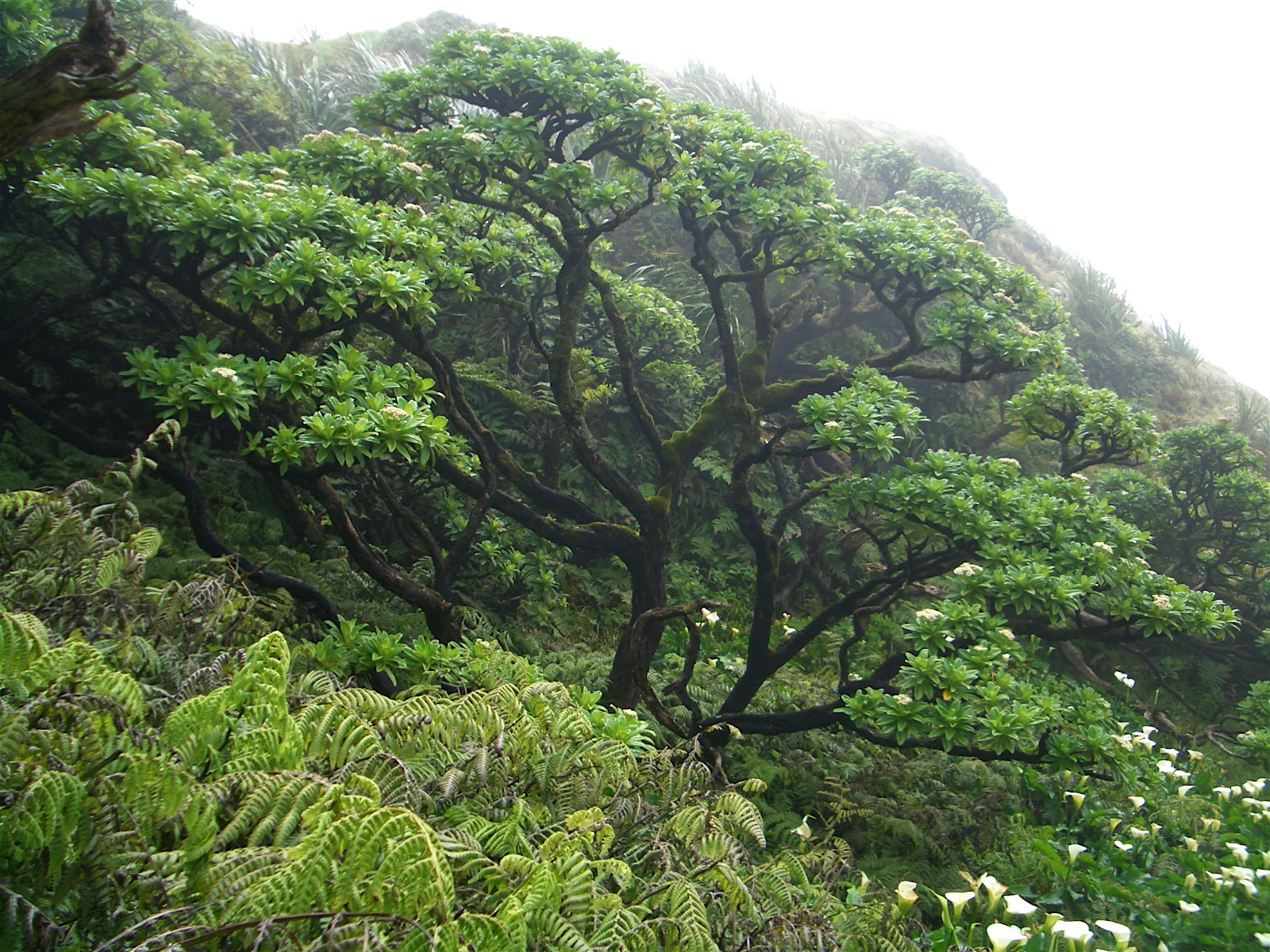 Remnant of a native Cabbage Tree Forest on High Peak, Saint Helena.